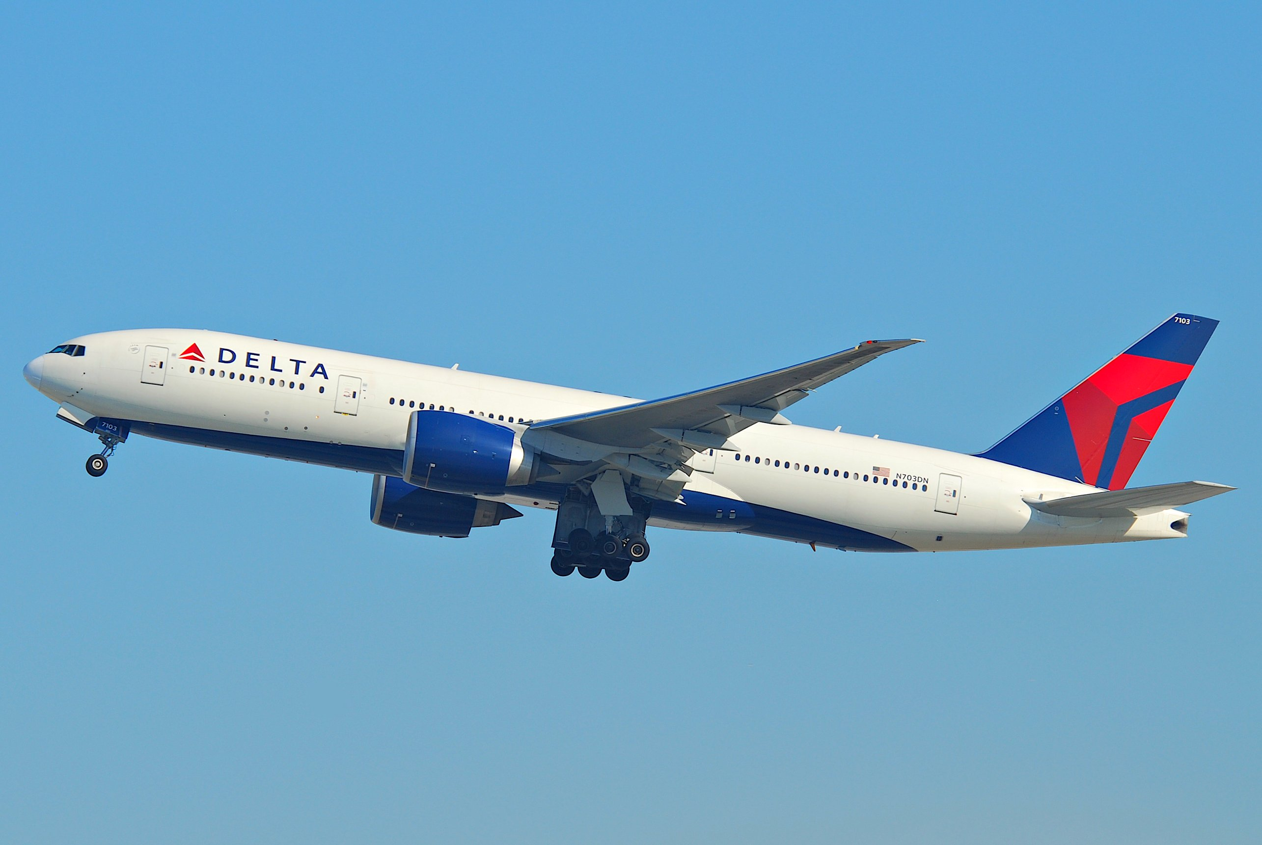 The only airline from the USA operating the 777LR...